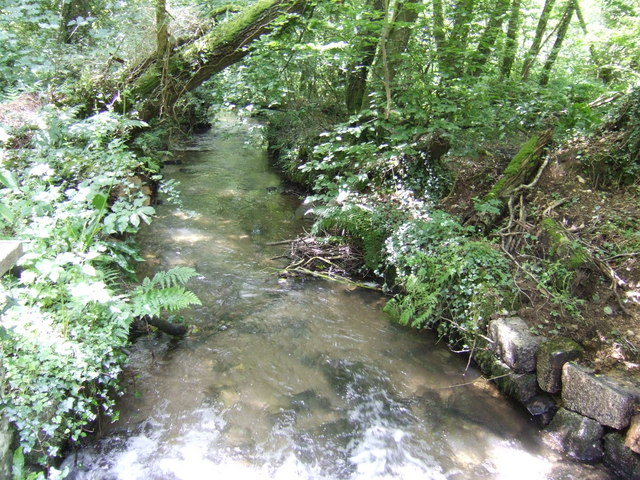 River Lerryn at Tallowater Flowing downstream to Fowey.